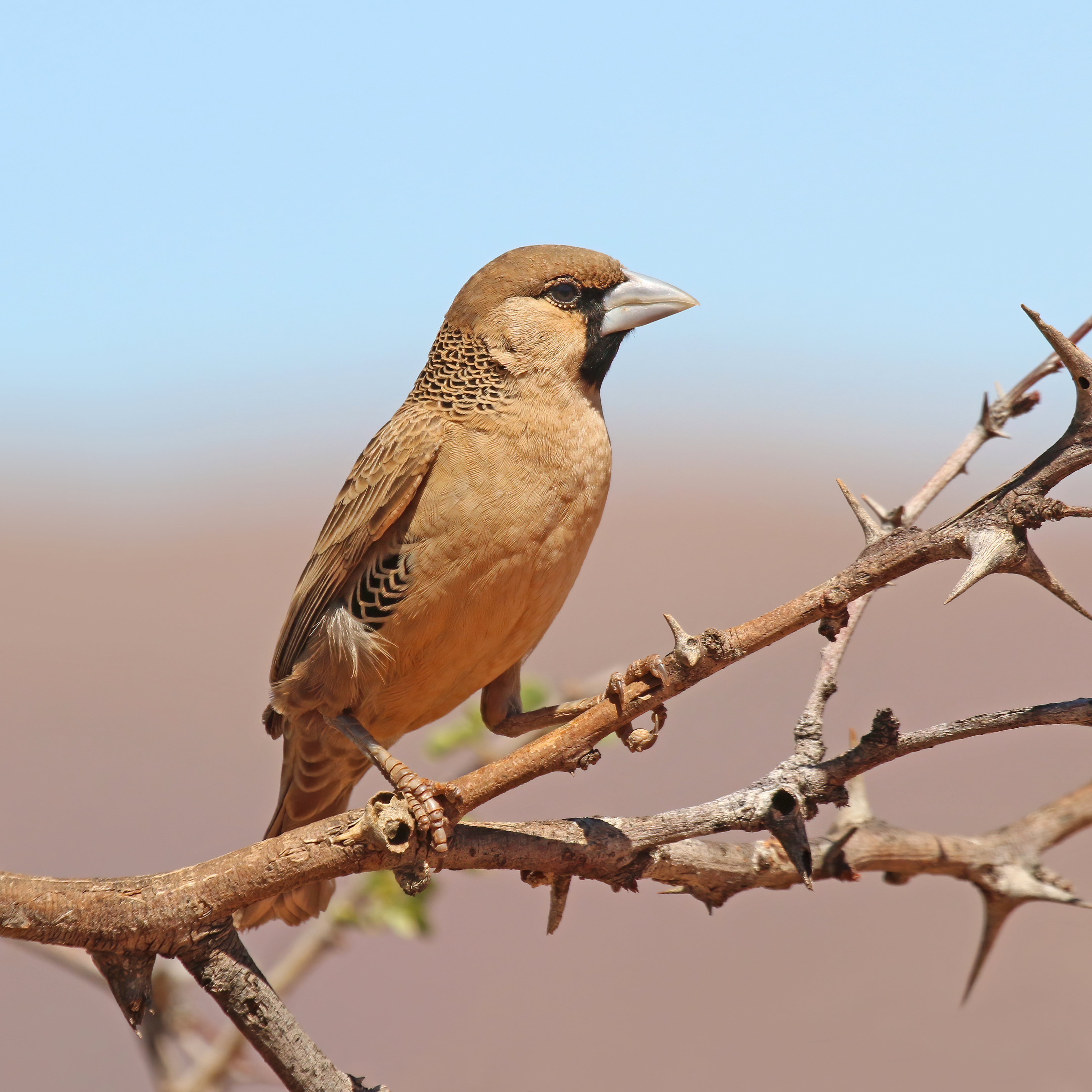 Sociable weaver (Philetairus socius), Tswalu Kalahari Reserve, South Africa